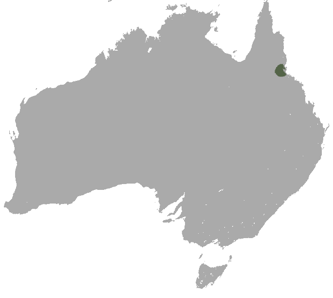 Mount Claro Rock Wallaby (Petrogale sharmani) range